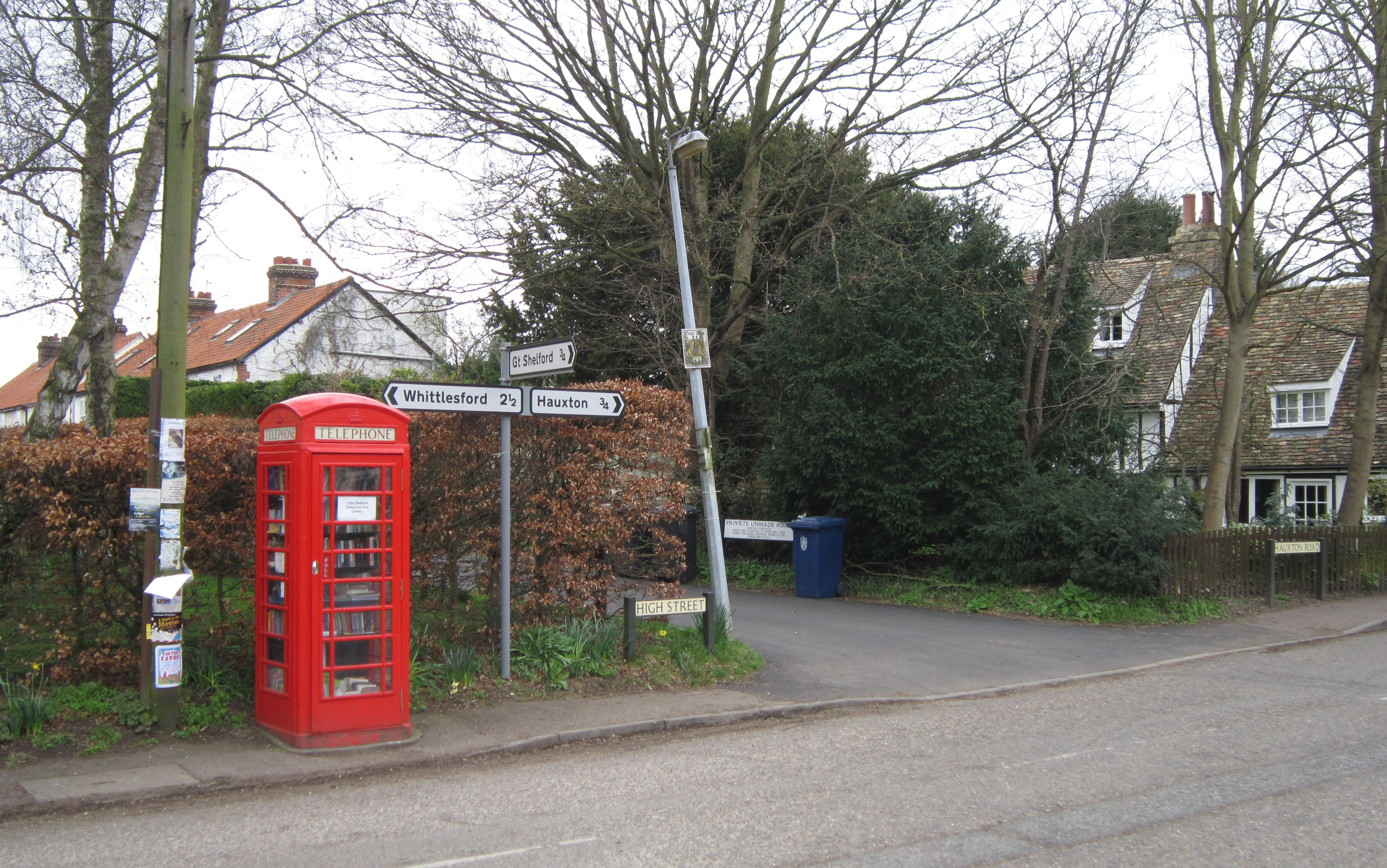 Little Shelford High Street and Telephone Box Library